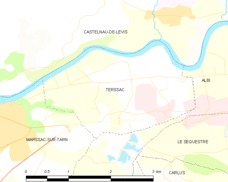 Map of French municipality Terssac